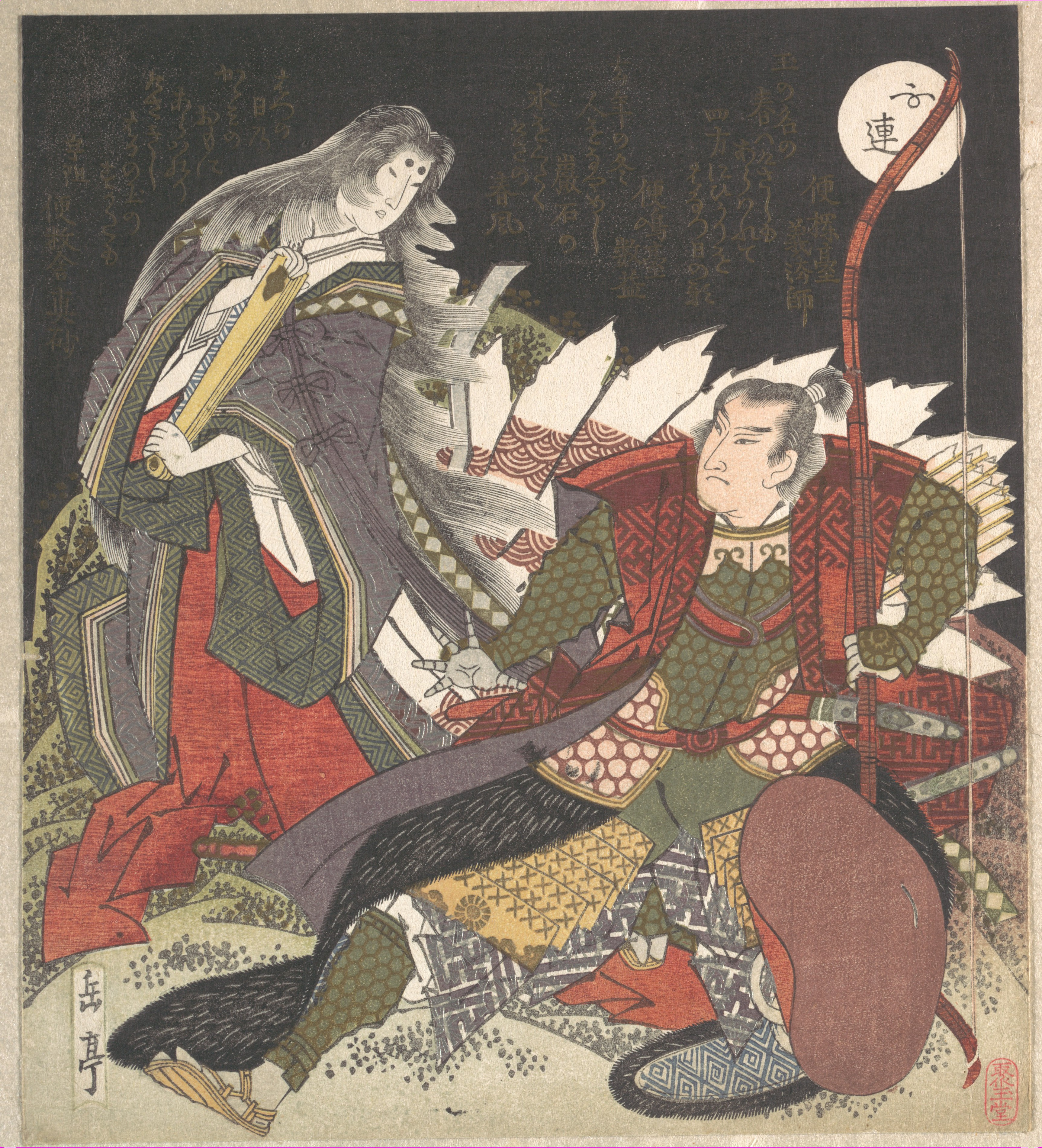 The Warrior Miura-no-suke Confronting the Court Lady Tamamo-no-mae as She Turns into an Evil Fox with Nine Tails